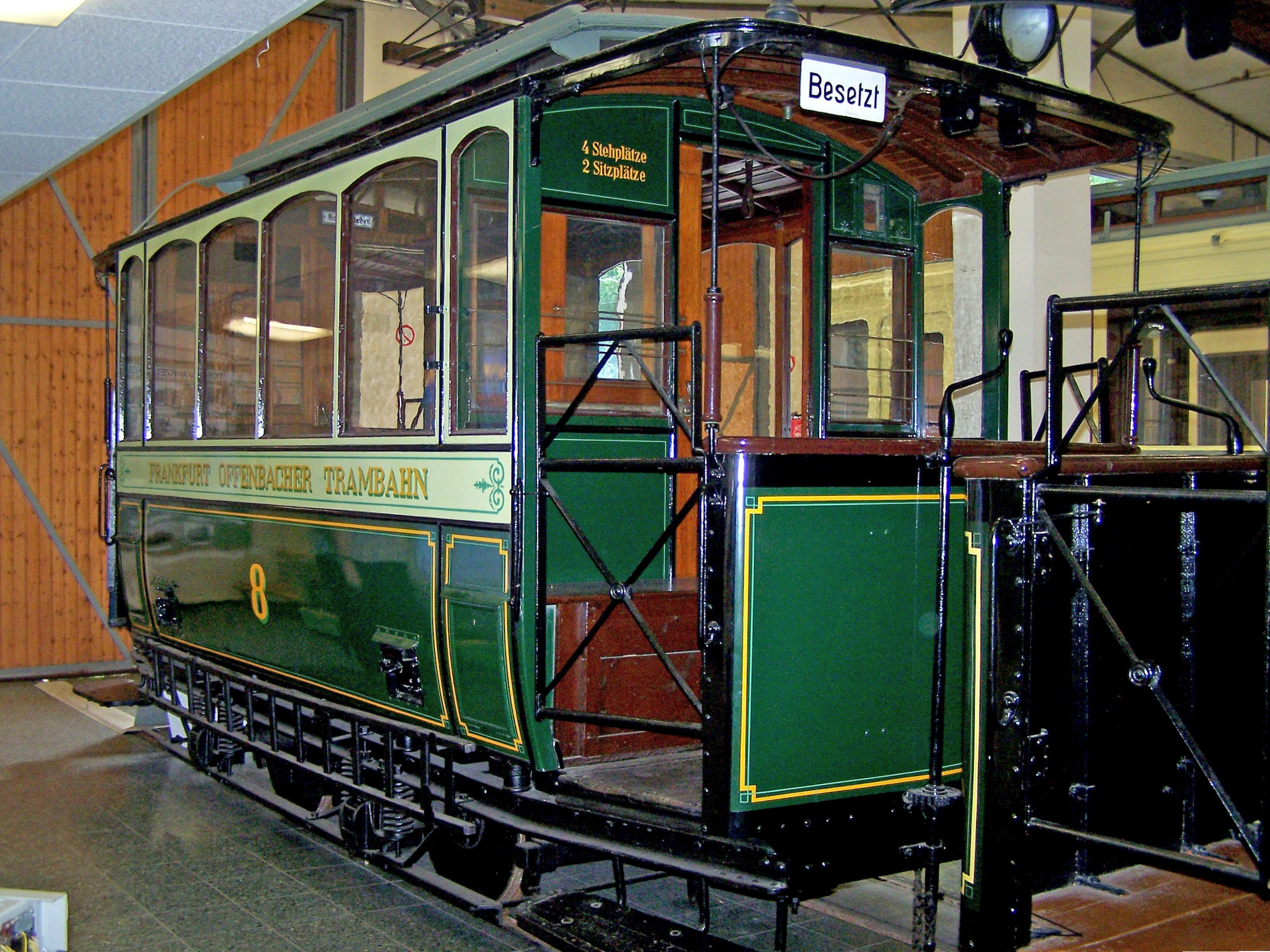 tram 8 of the FOTG in the Frankfurt on Main Transport Museum in Frankfurt am Main-Schwanheim